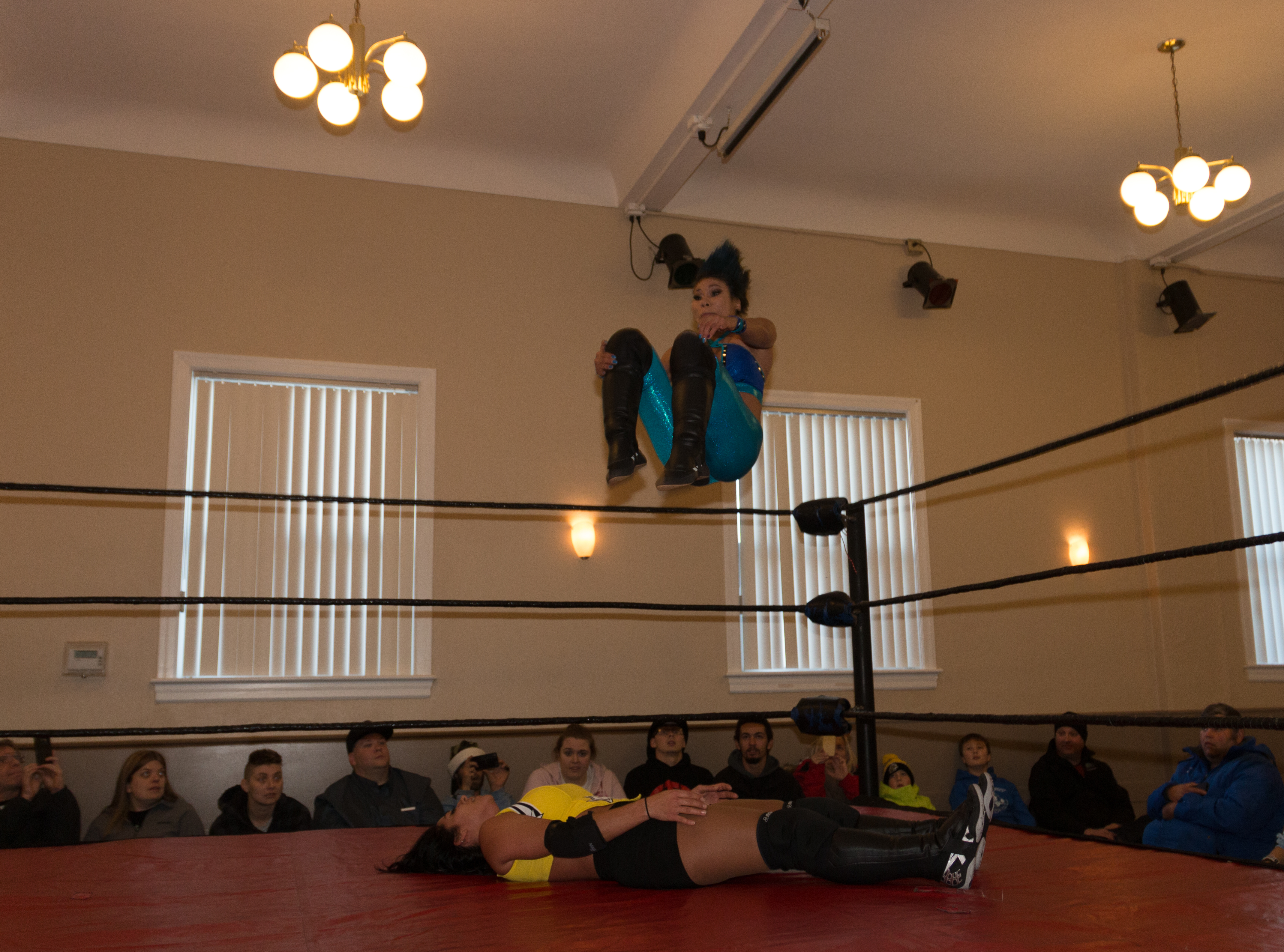 Mia Yim executing a 450 degree splash on KC Spinelli at Alpha-1's One Crazy Night show in Oshawa, ON